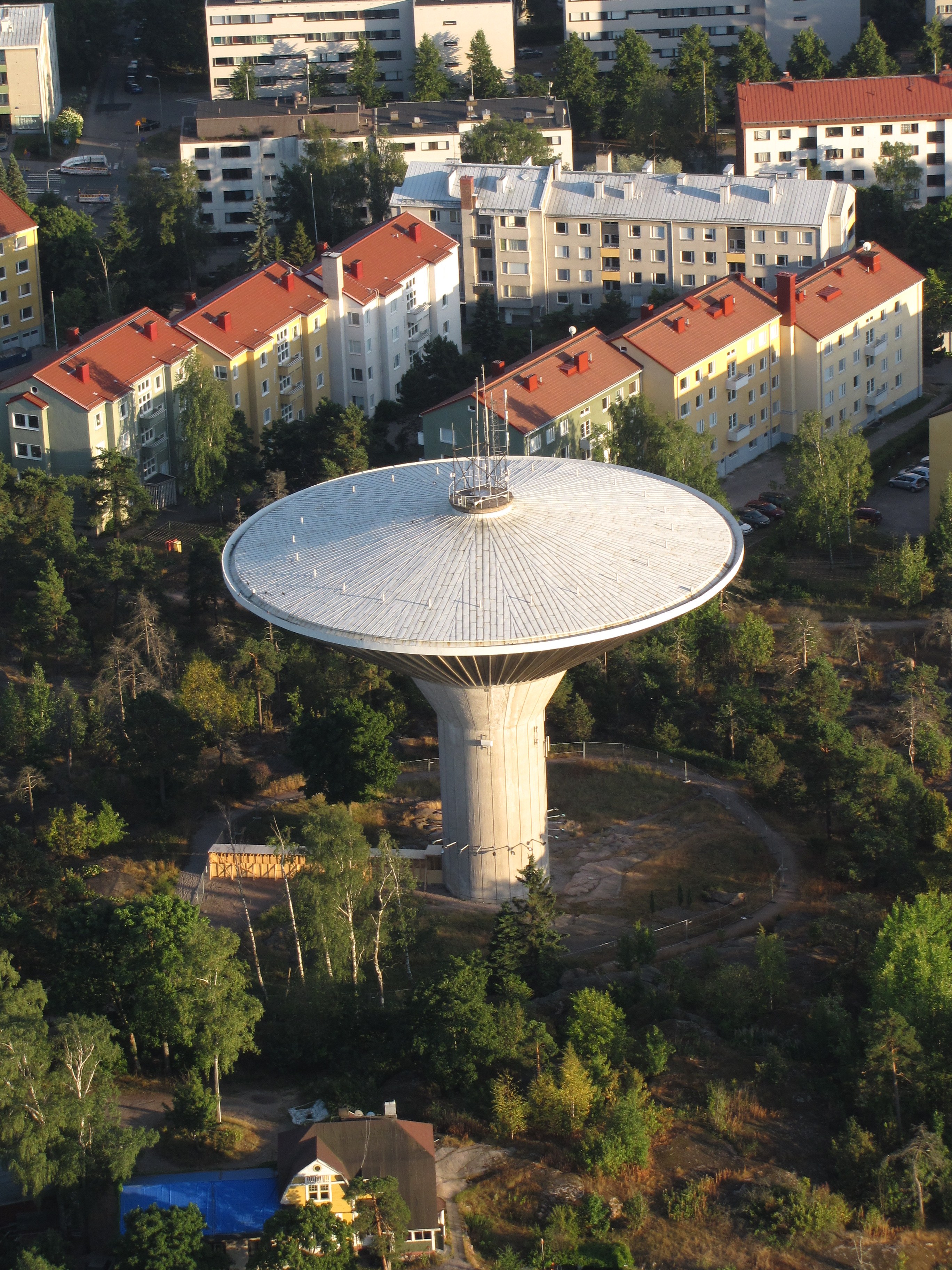 Lauttasaari water tower from a hot air balloon.